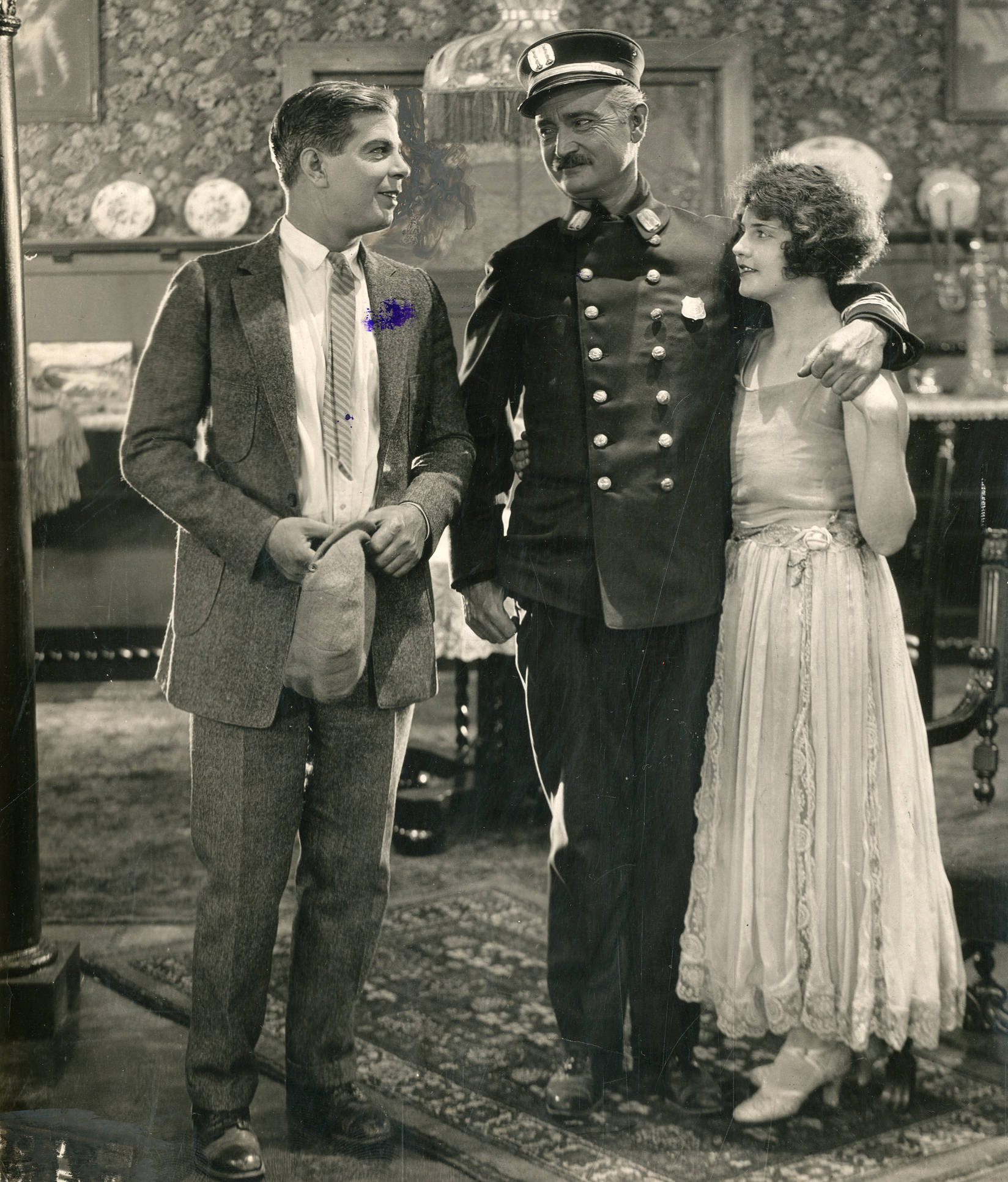 Still from the American silent film Hook and Ladder (1924). Subjects: motion pictures, actors